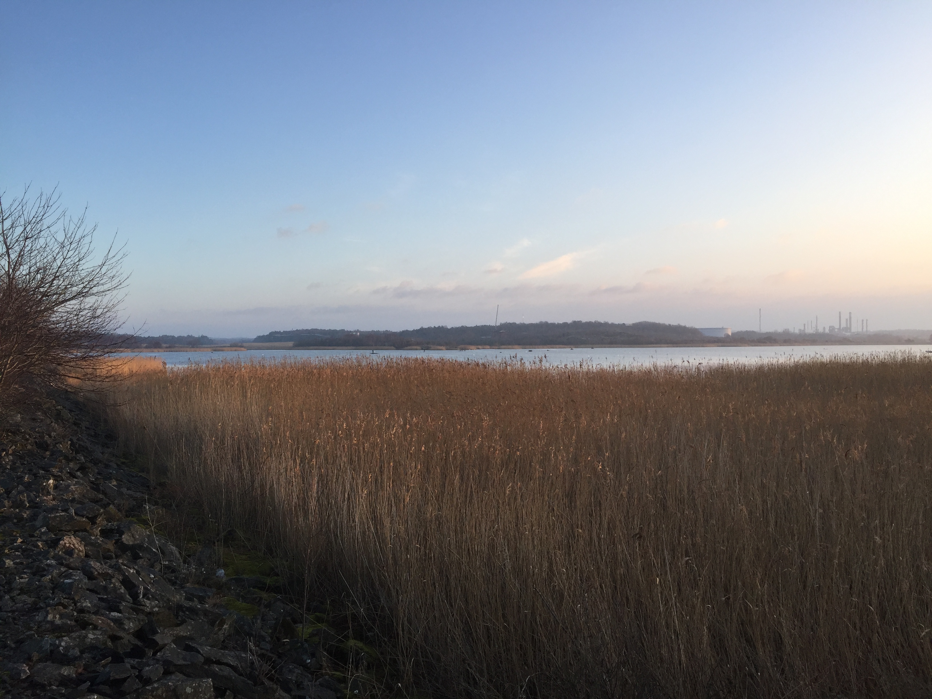 Reed bed in the northwest part of Torslandaviken.